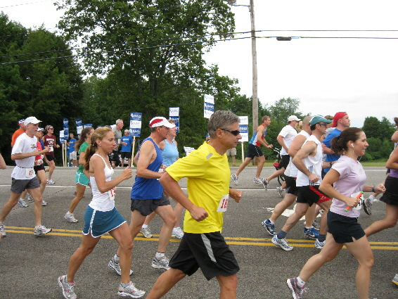 Me taking off at the start of New Hampshire's 38th Annual Stratham Fair Road Race, a 5.7 mile run.